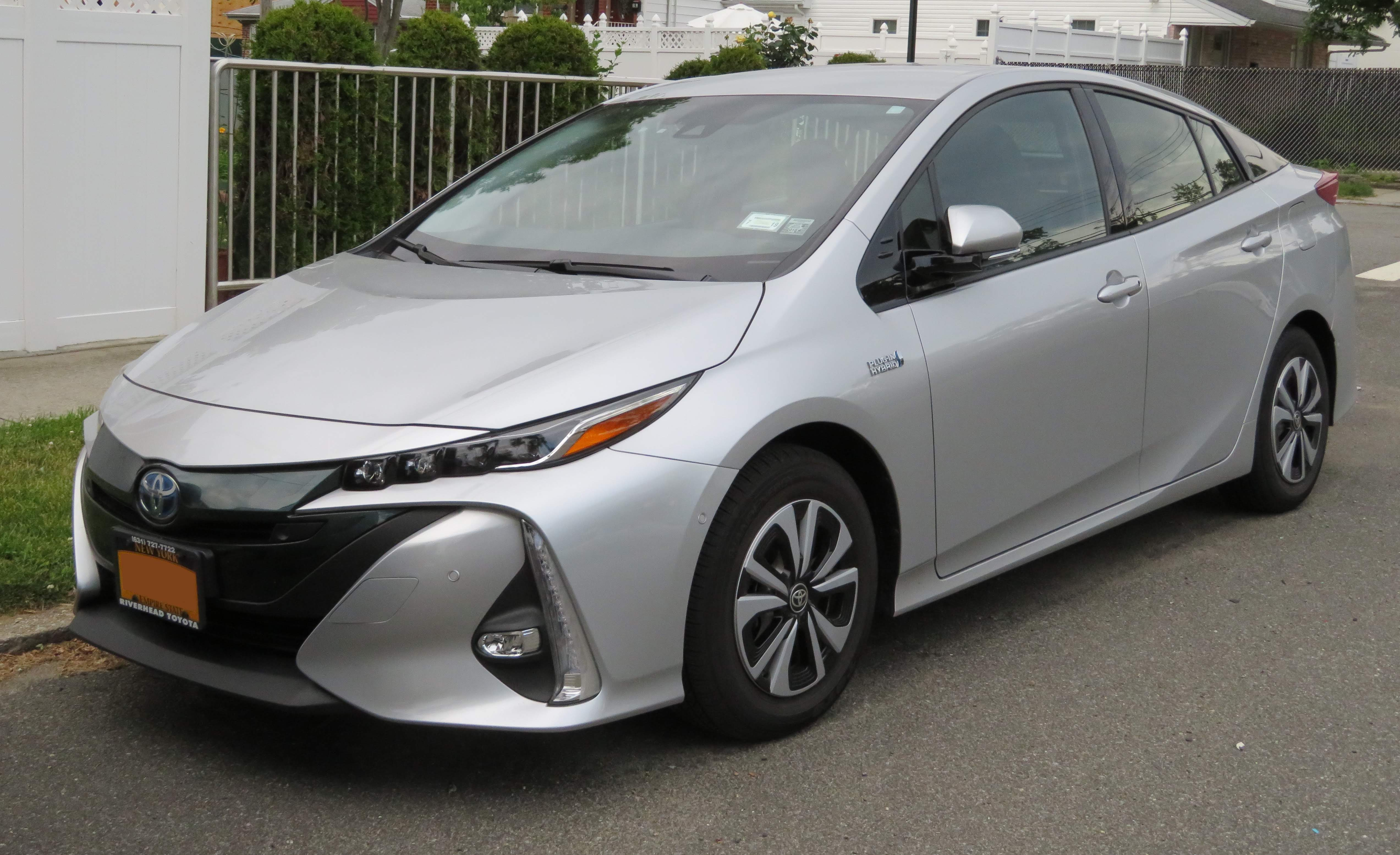 Photographed in Queens, New York